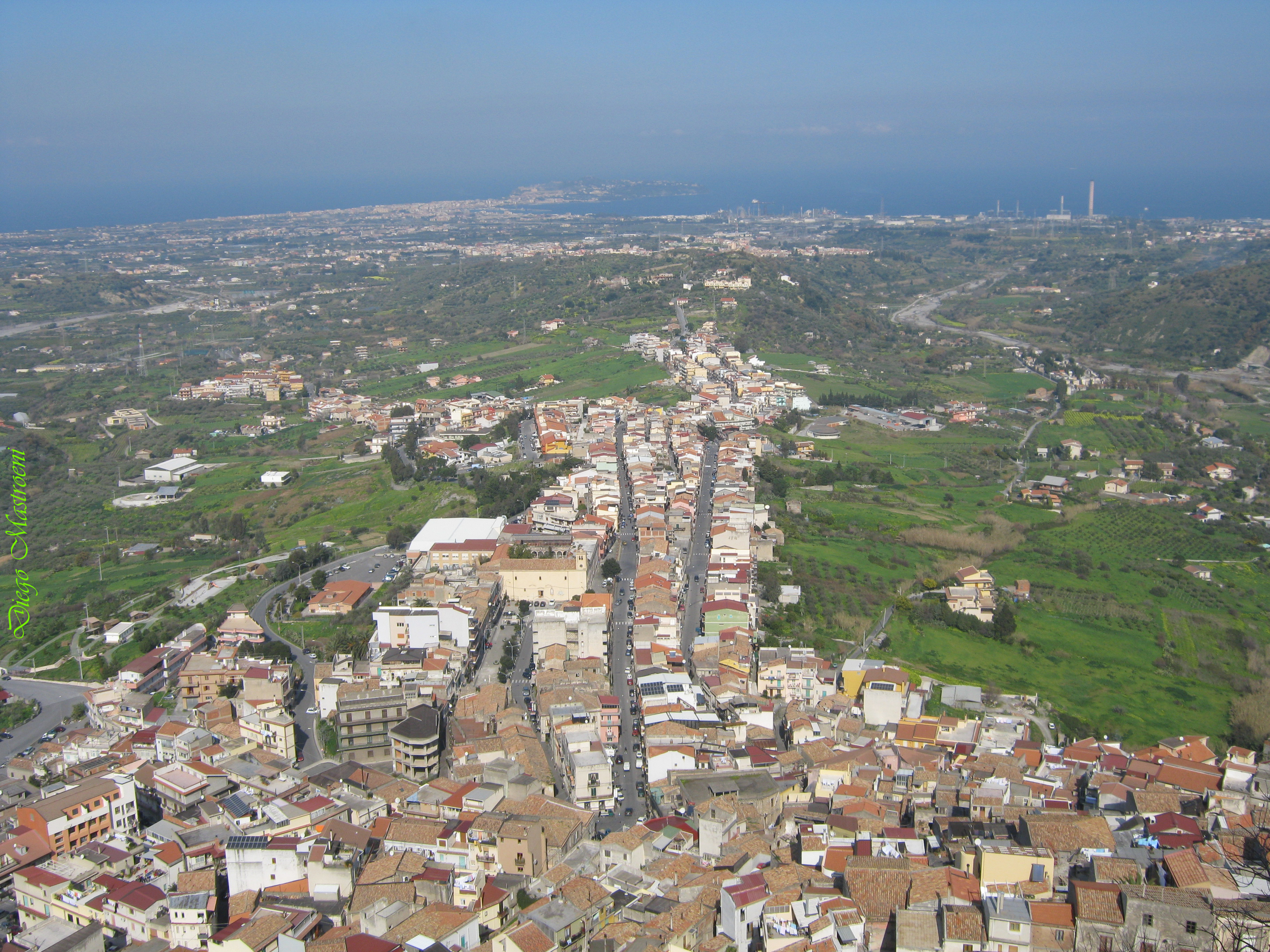 Panorama Santa Lucia del Mela